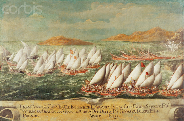 The Venetian Fleet Commanded by Francesco Morosini Chasing the Turks